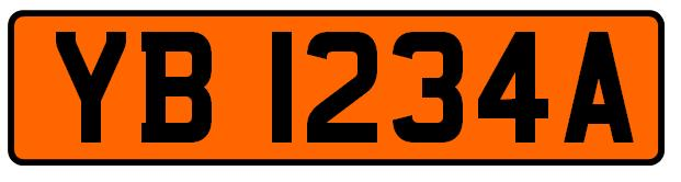 A Singapore hazardous cargo vehicle registration plate.